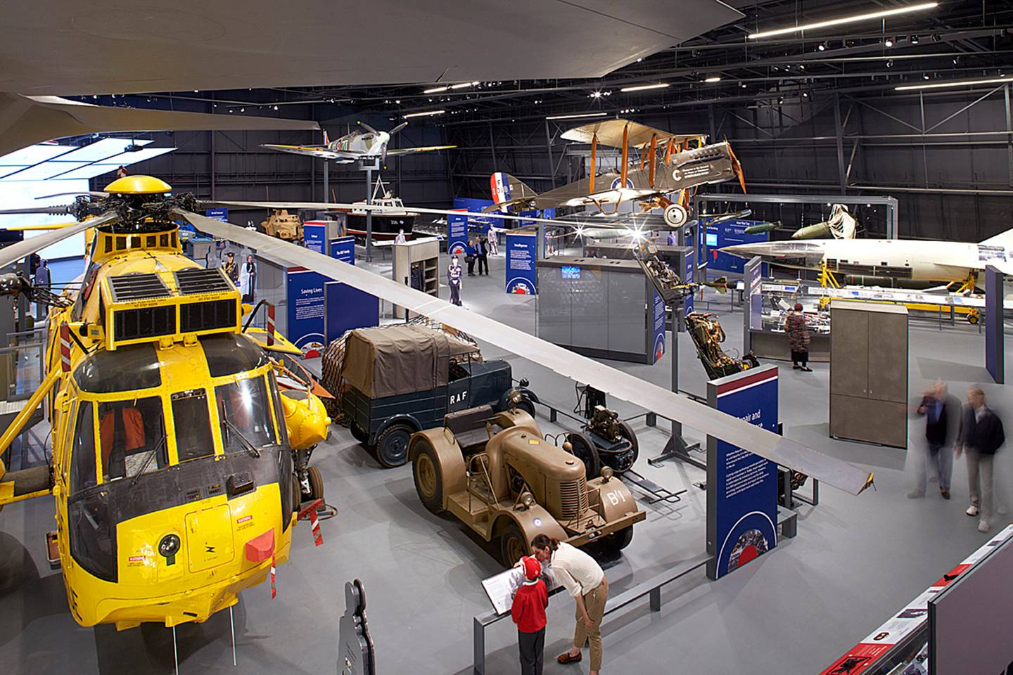 RAF Stories: the first 100 years of the RAF. This is one of the three new exhibitions of the Royal Air Force Museum in London. On the left is the Sea King helicopter